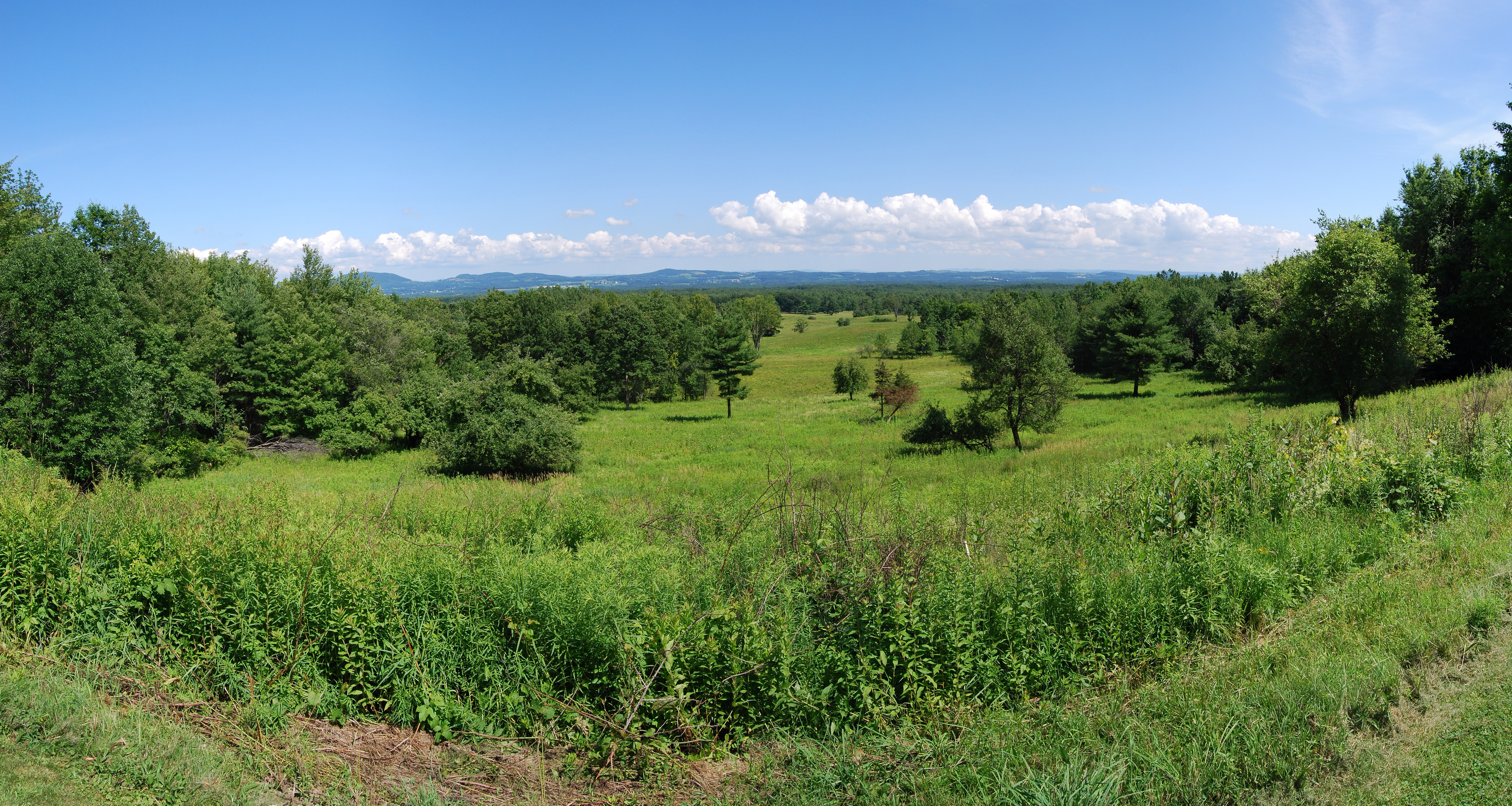 Battlefield of the Battle of Saratoga, now part of Saratoga National Historic Park, in Stillwater, New York, United States